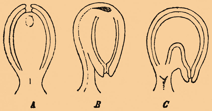 Illustration from Brockhaus and Efron Encyclopedic Dictionary (1890—1907)